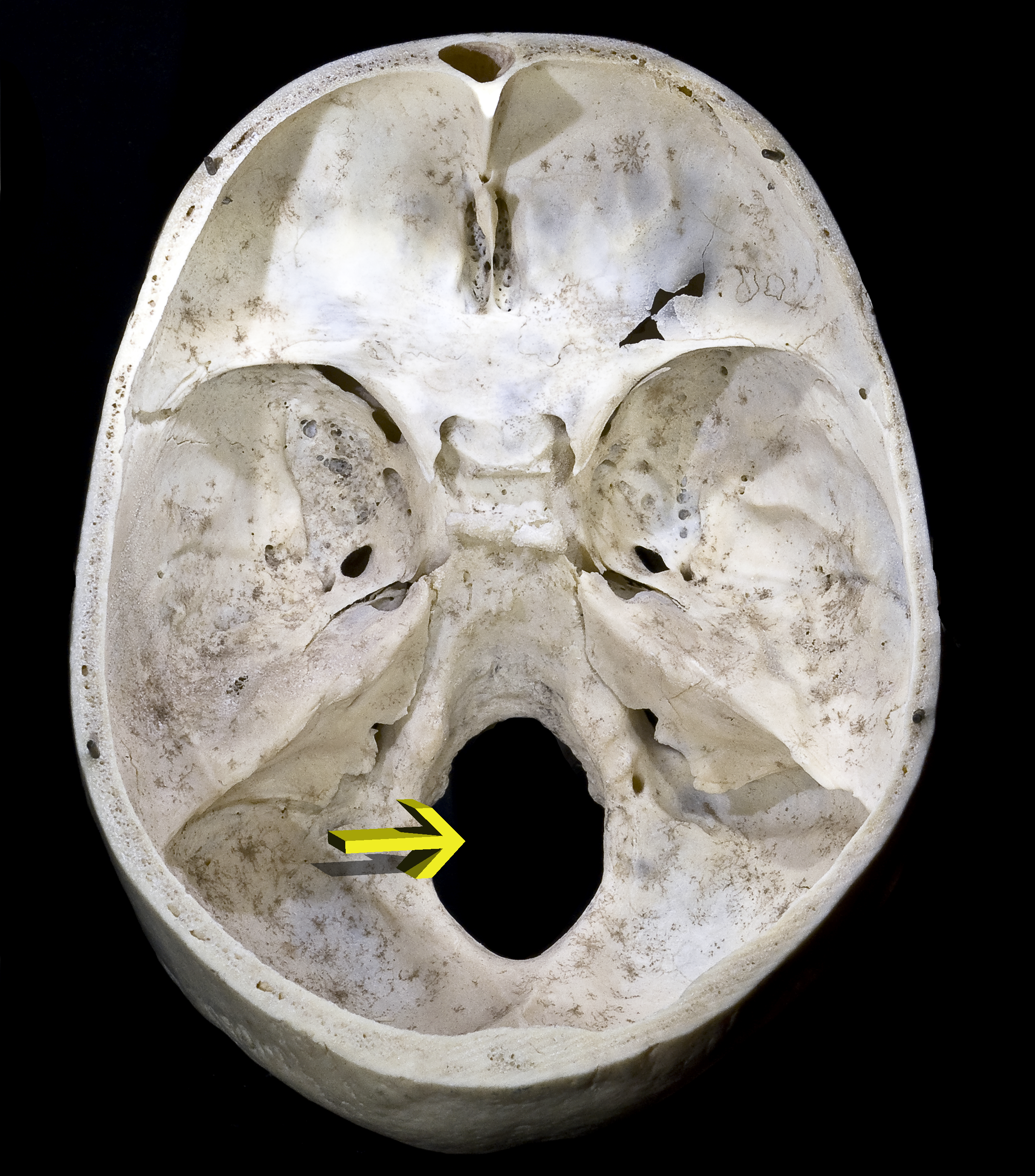 A photograph of the lower inner surface of a human skull. Arrow pointed foramen magnum.